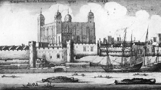 Panoramic view of London